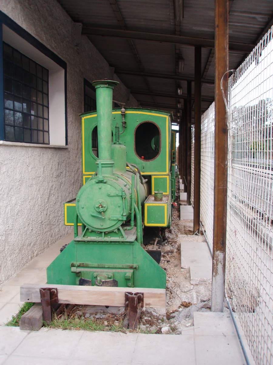 GREECE: 0-4-0T industrial 600 mm steam locomotive, made by Orenstein & Koppel (c/n 1339), now preserved at the Railway Museum of Athens.